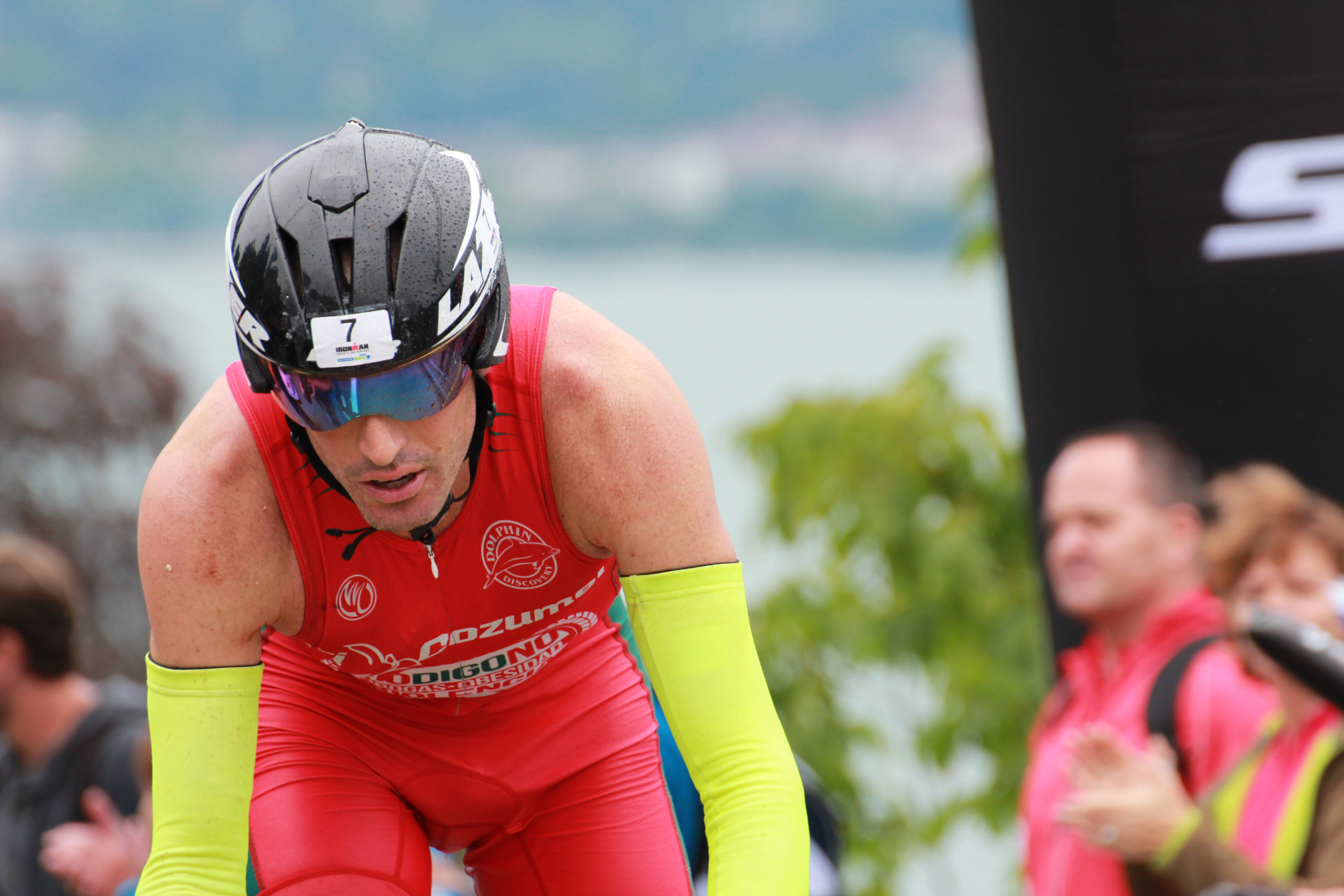 Stephen Bayliss at Ironman Switzerland 2014.jpg